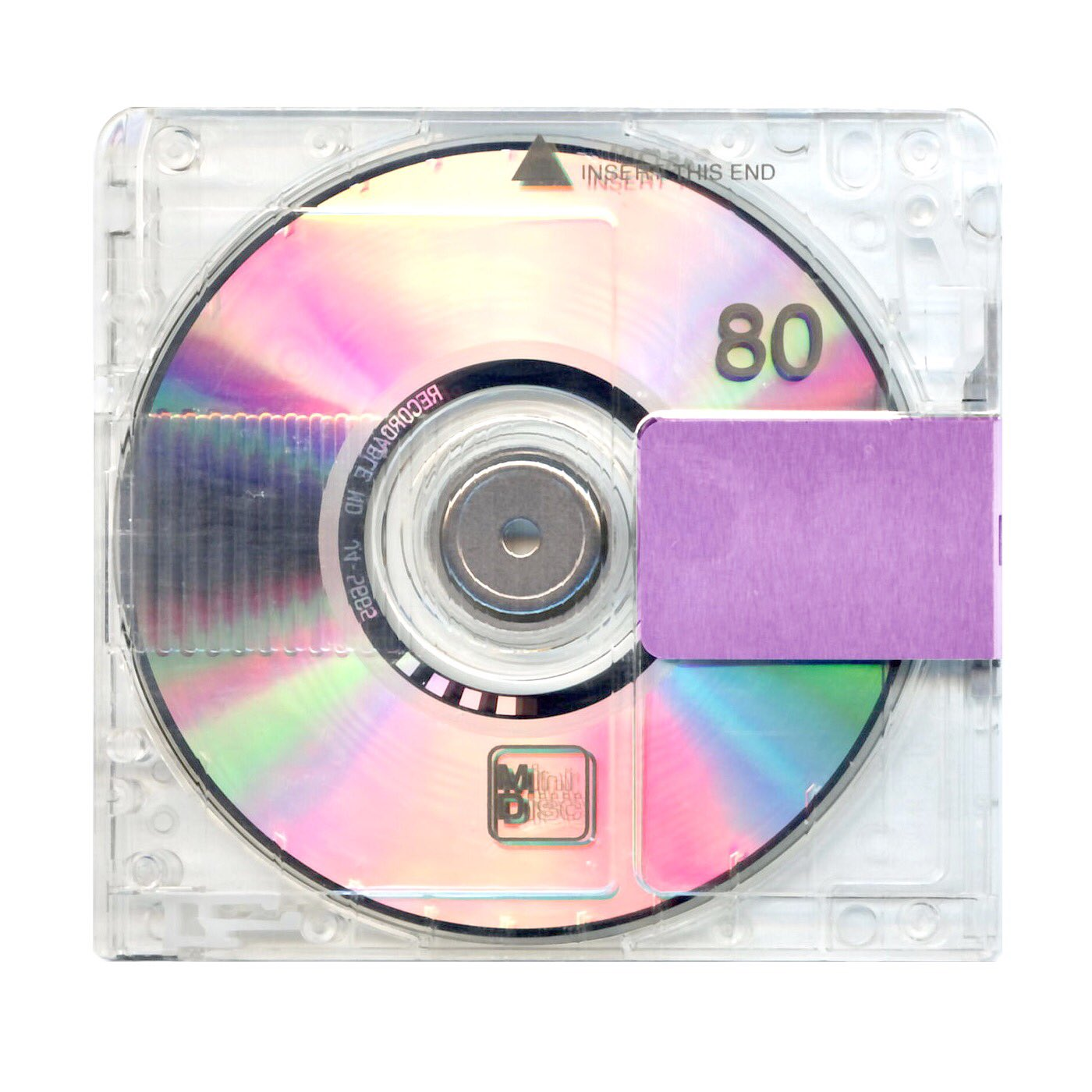 Full quality cover art for Kanye West's ninth studio album Yandhi